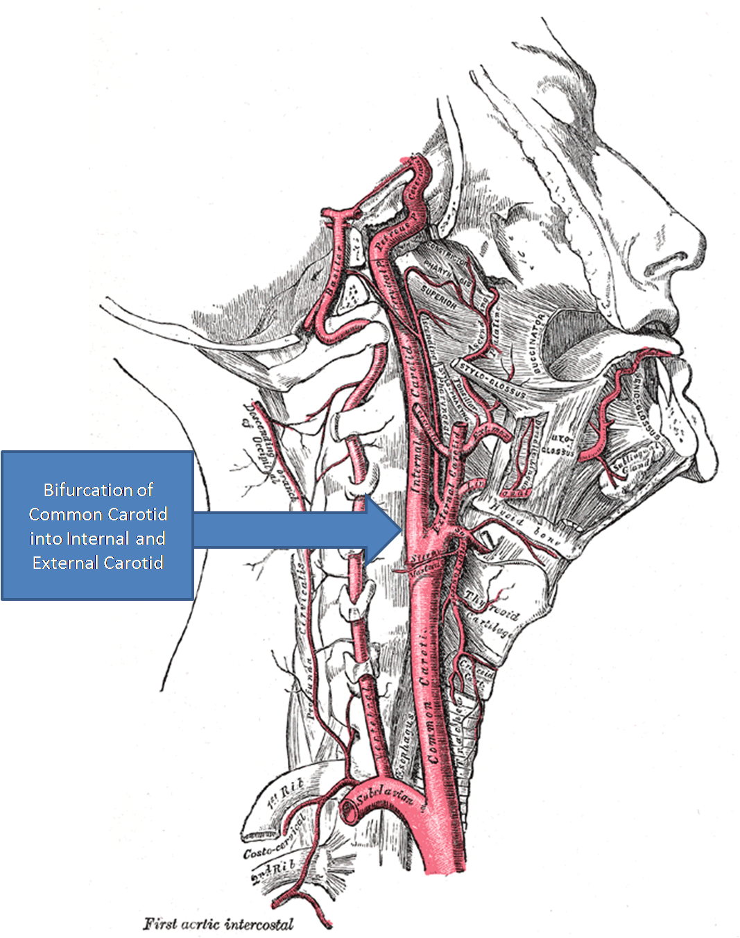 FIG. 513 – The internal carotid and vertebral arteries. Right side.